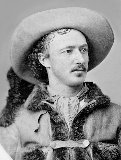 Texas Jack Omohundro in costume, 1872.